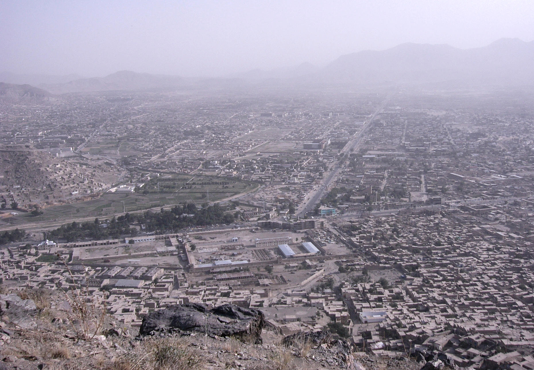 View of Kabul from TV-Hill, Afghanistan پښتو: کابل، افغانستان